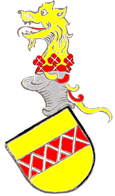 Coat of Arms of noble Bornheim family